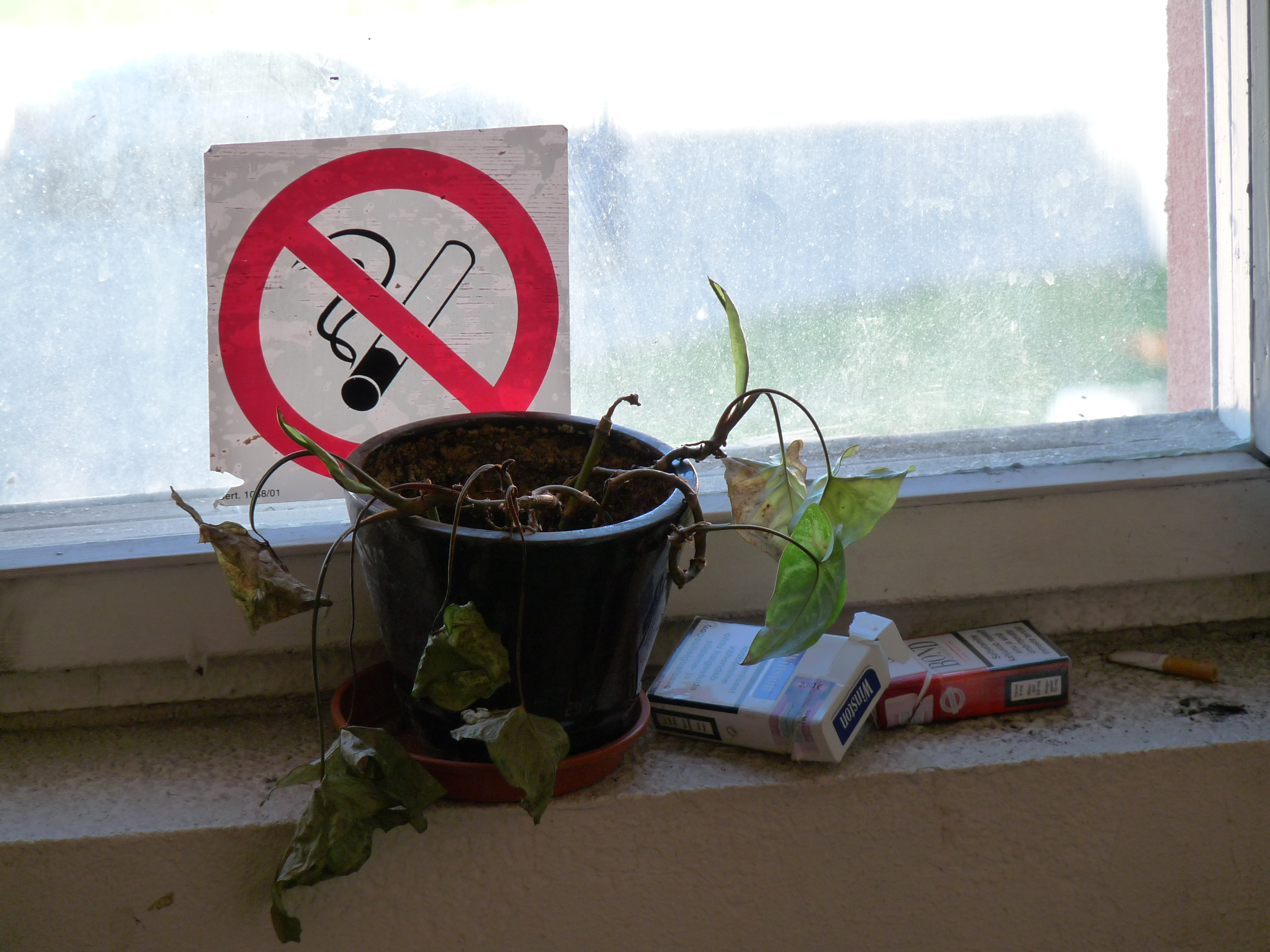 No comments...